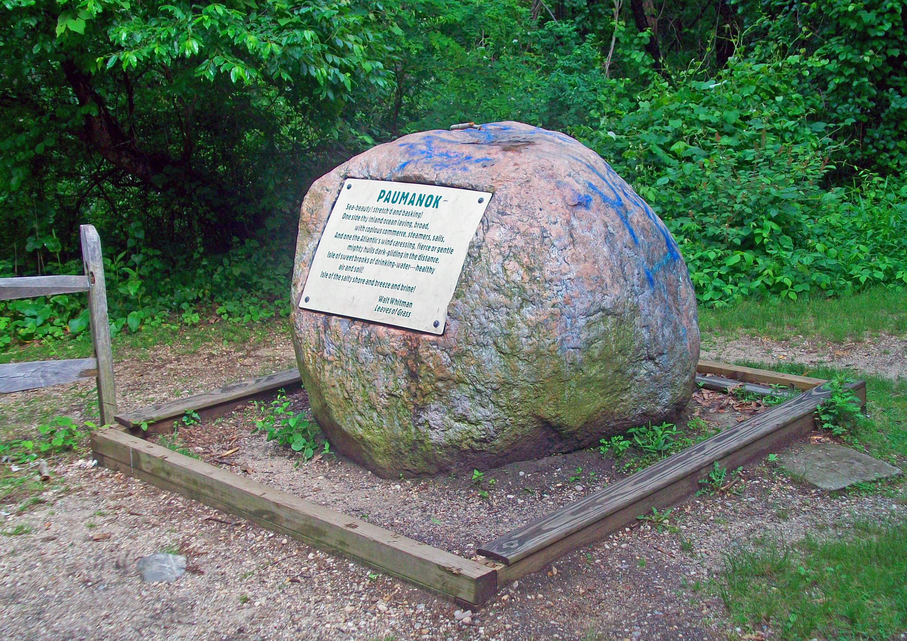 401-foot (122 m) summit of Jayne's Hill, the highest point in Suffolk County, New York, USA, and also of Long Island as a whole. Noted by rock with text of Walt Whitman poem "Paumanok".